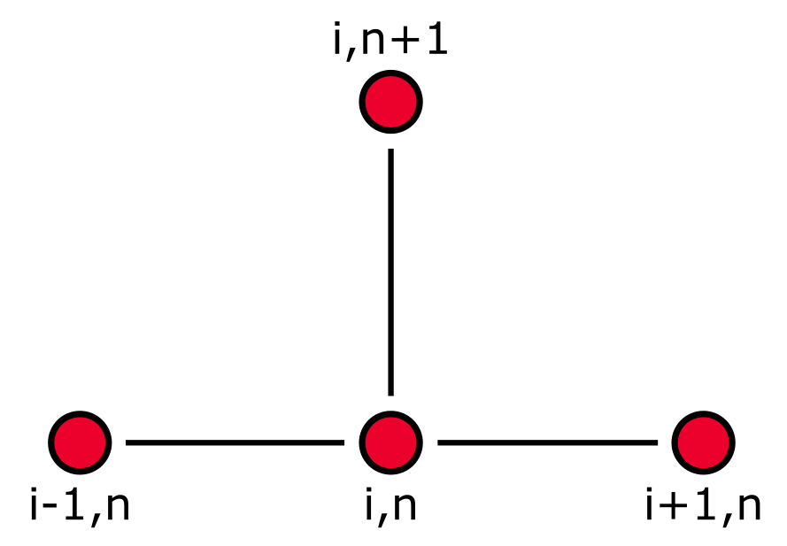 Stencil for the Lax-Wendroff method for the numerical resolution of systems of hyperbolic partial differential equations.